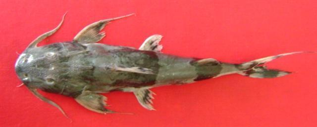 Bagarius bagarius, Karachi, Pakistan